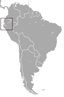 Caenolestes condorensis range